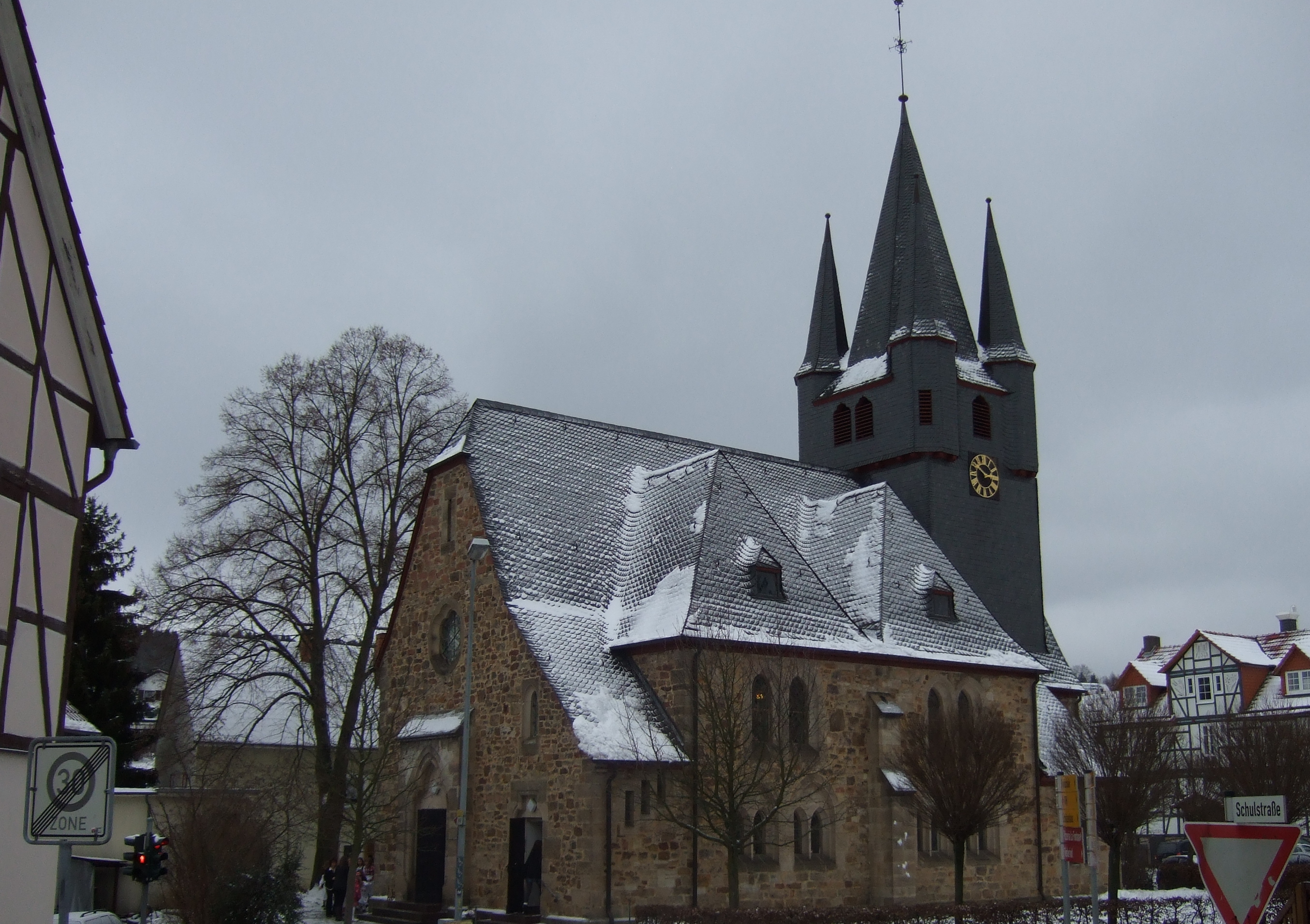 Church Söhrewald-Wellerode